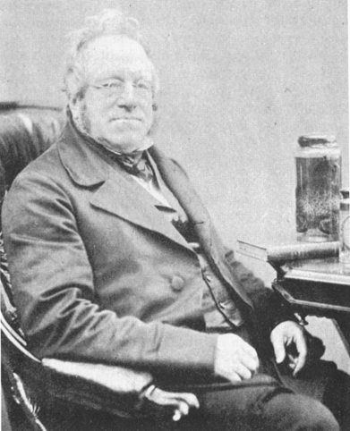 Subject : John Edward Gray (1800-1875), an English zoologist associated with the British Museum, one of the earliest stamp collectors, put out a popular collector-inspire catalog in 1861. The first identifiable stamp collector who bought the Penny Black in blocks of four in 1840.